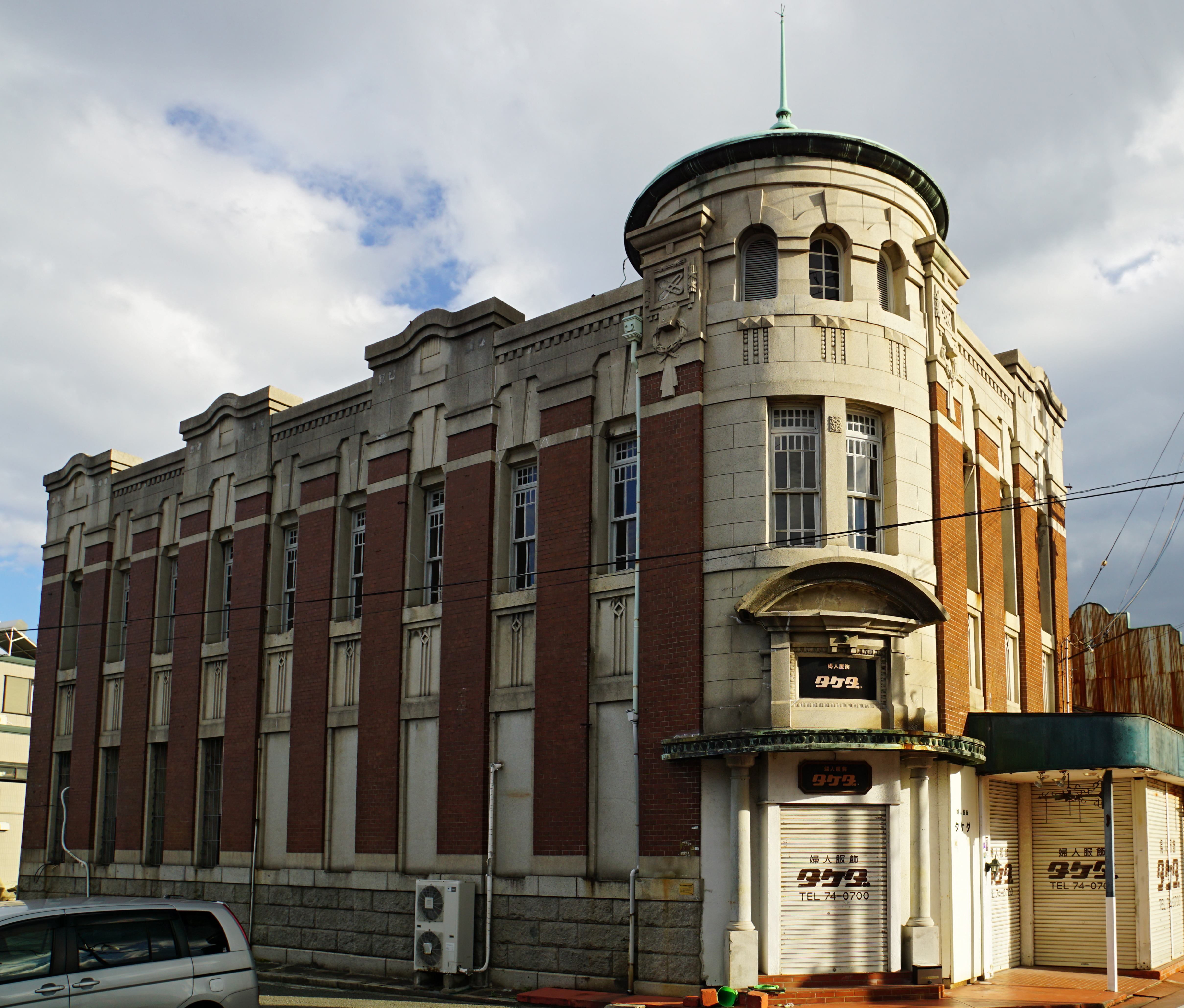 Former_Aboshi_Bank_headquarters in Aboshi-ku, Himeji, Hyogo Prefecture, Japan. It was built in 1916.